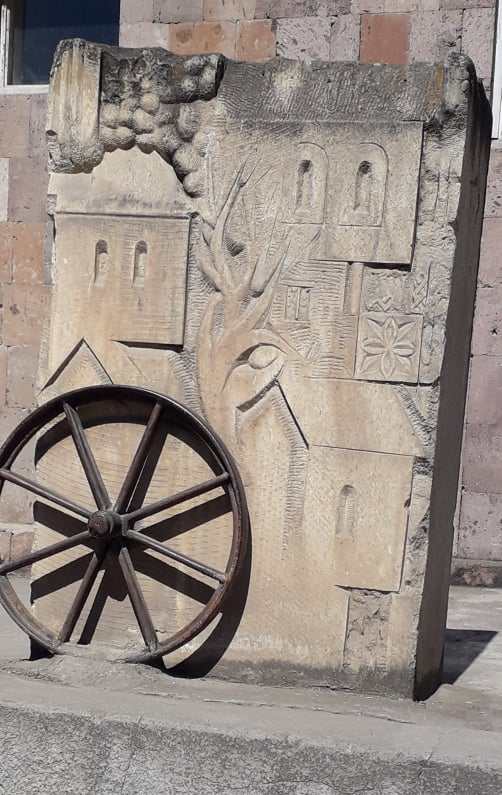 This is sculpture of Koghb Cultural Center.